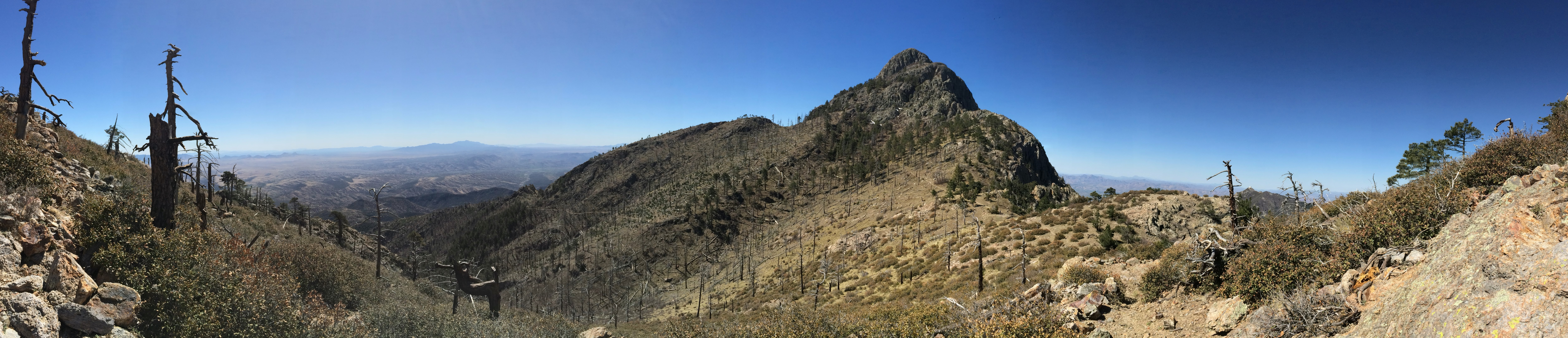 I took this panoramic shot from my iPhone on a beautiful, cloudless day.